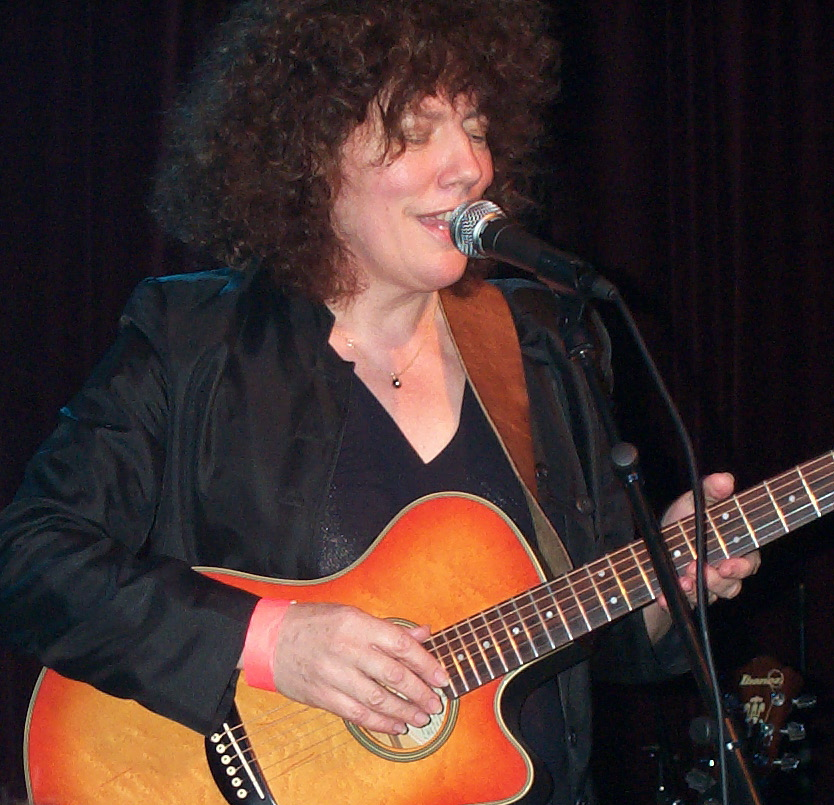 Bridget St John